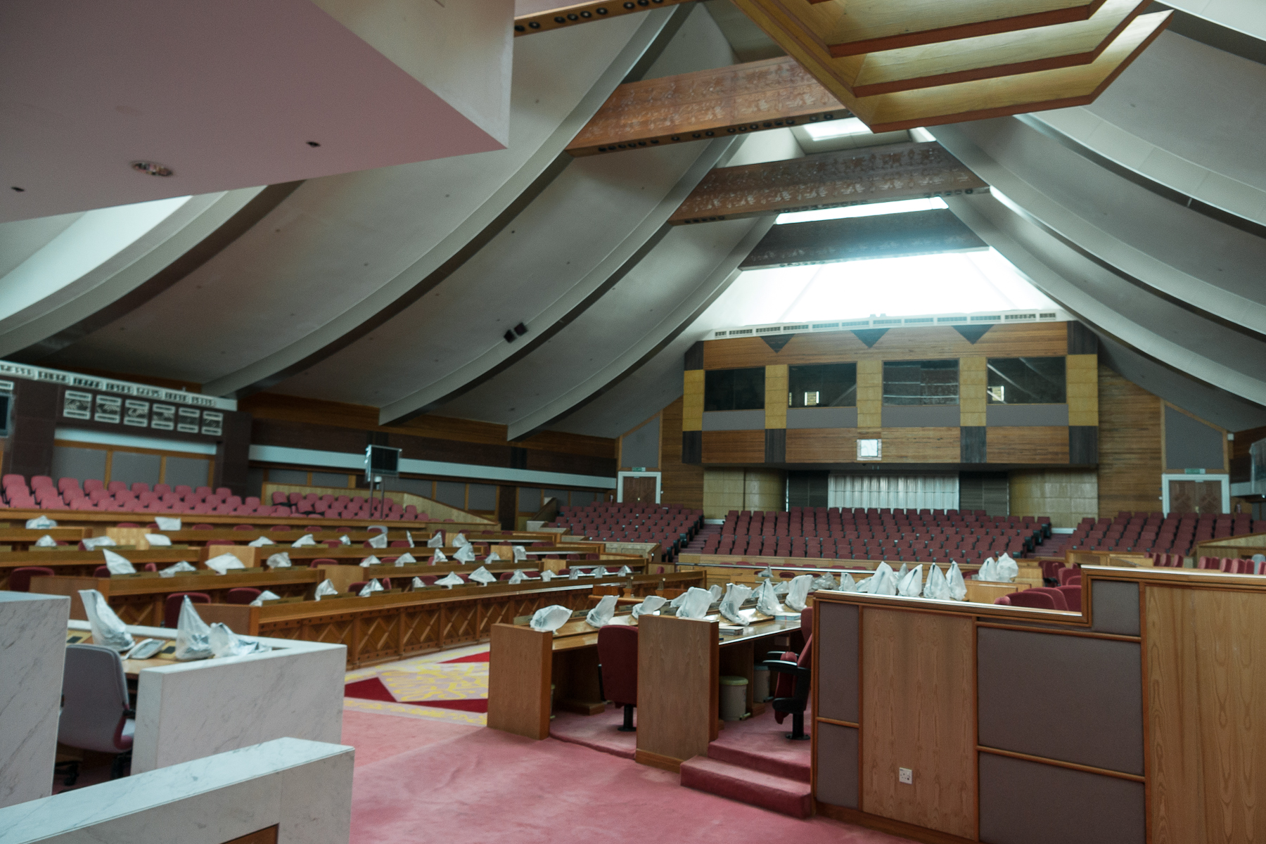 Kota Kinabalu, Sabah: Dewan Undangan Negeri Sabah (Sabah State Legislative Assembly). Interior view of meeting hall of the state assembly